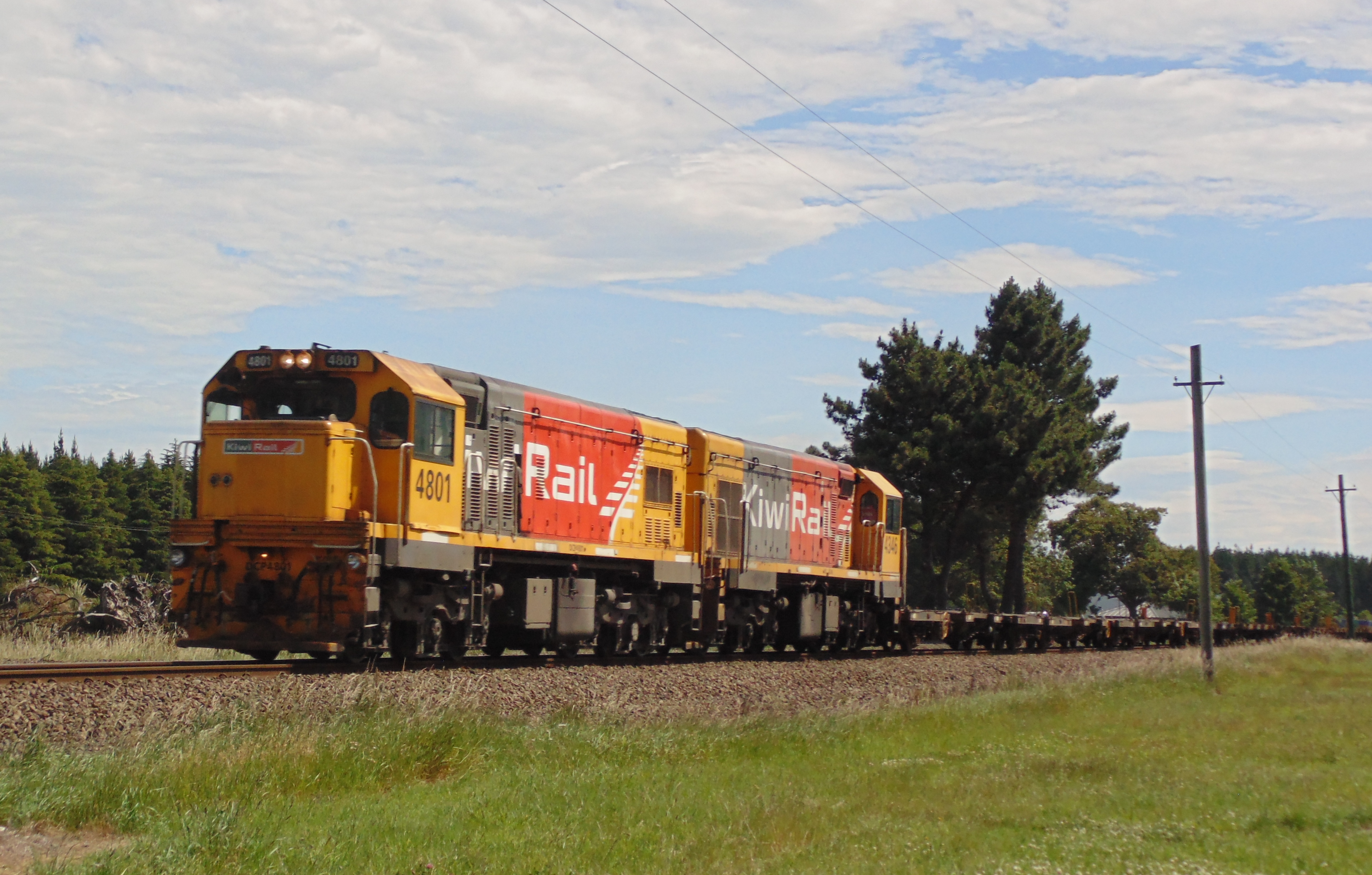 TrainboyMBH